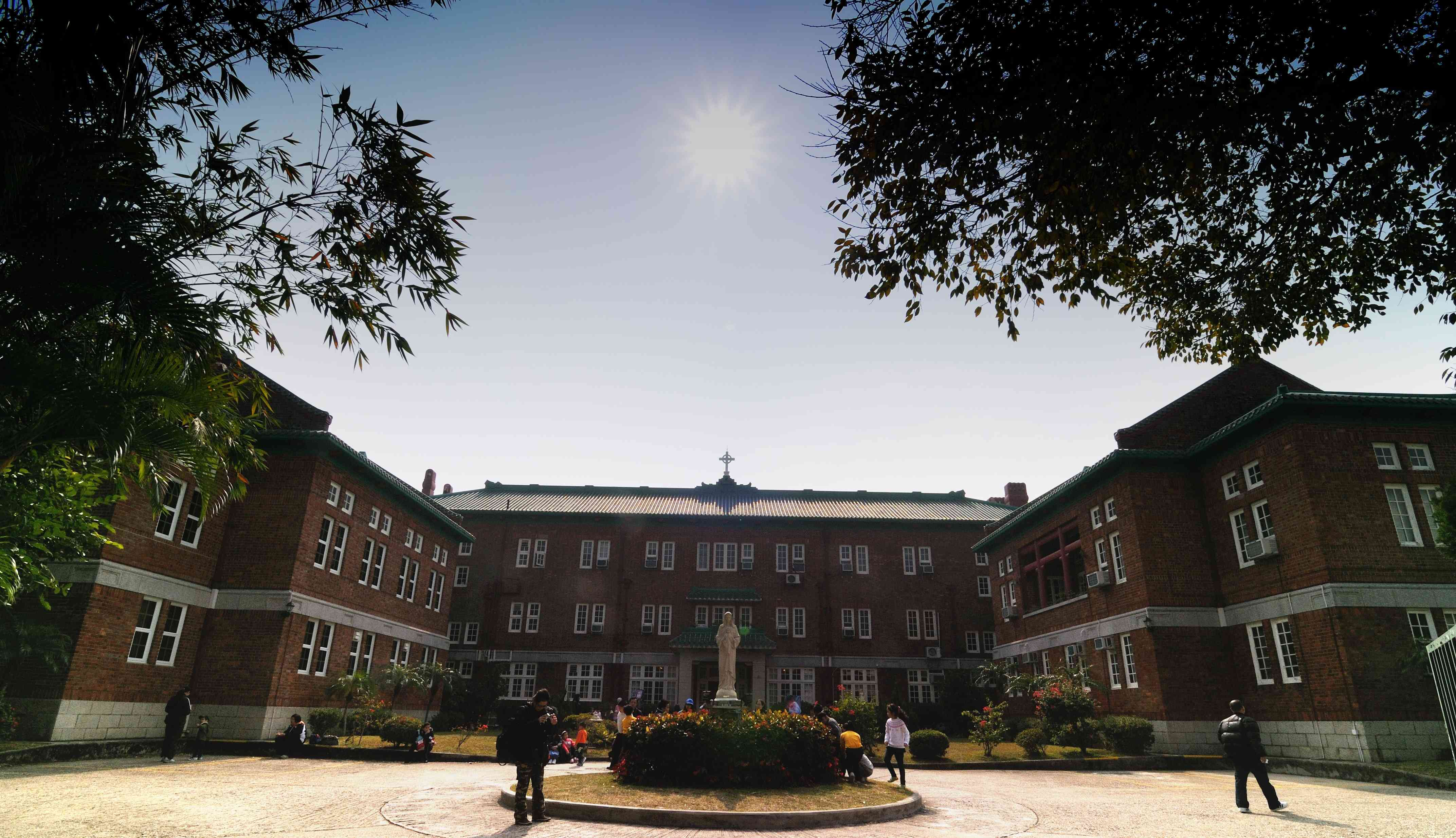 Photo of the front facade of Maryknoll Stanley House